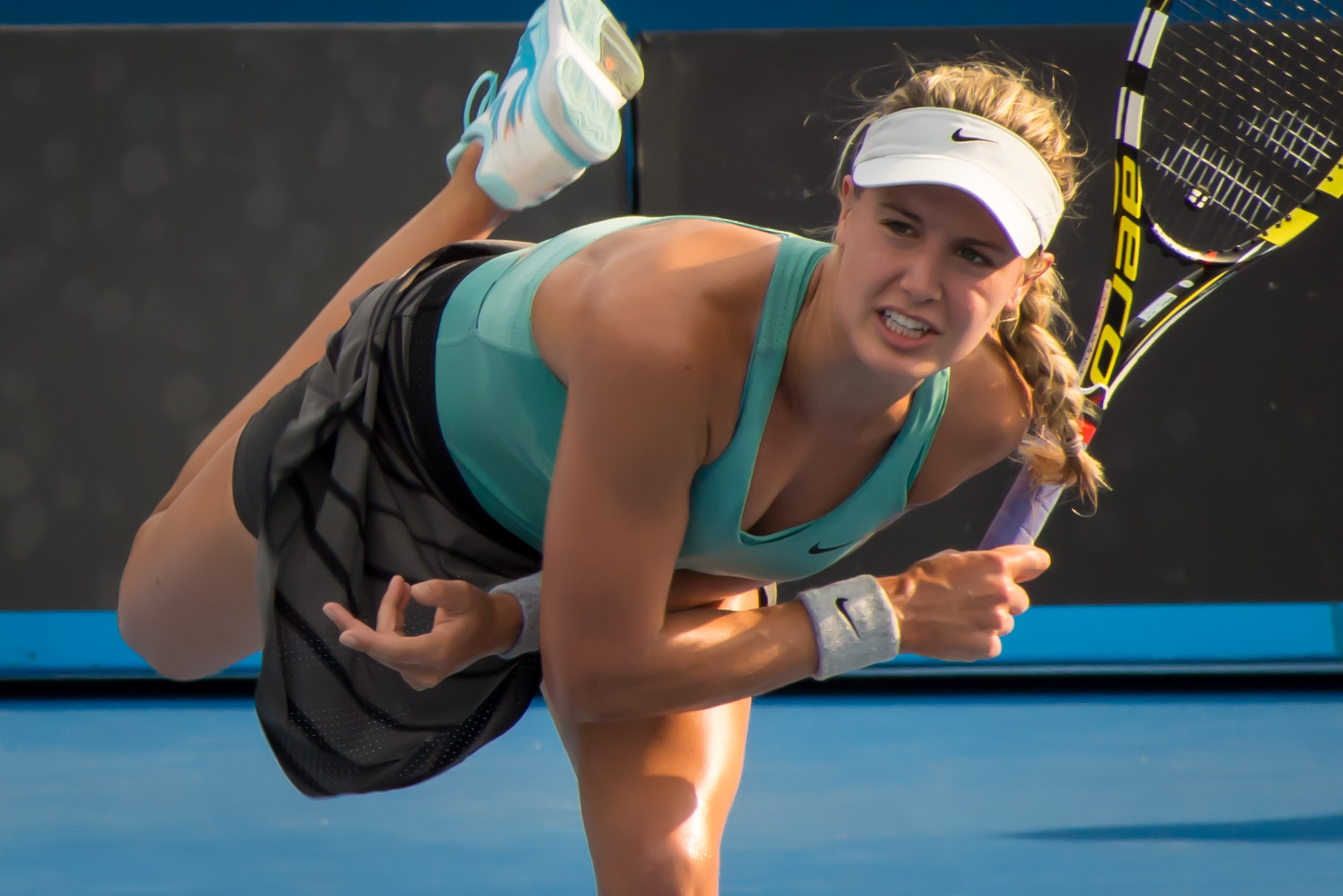 Eugenie Bouchard (CAN) [30] during her 2nd round straight-sets win to Virginie Razzano (FRA) at the 2014 Australian Open on Show Court 2.